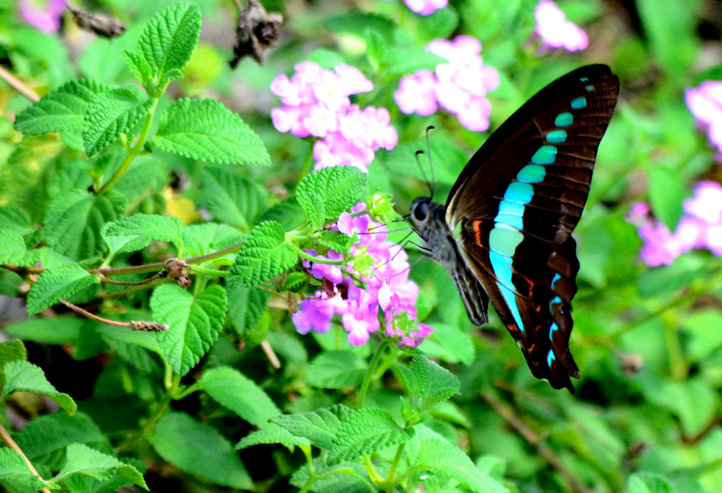 Common Blue Bottle at Thiruvananthapuram, Kerala,India